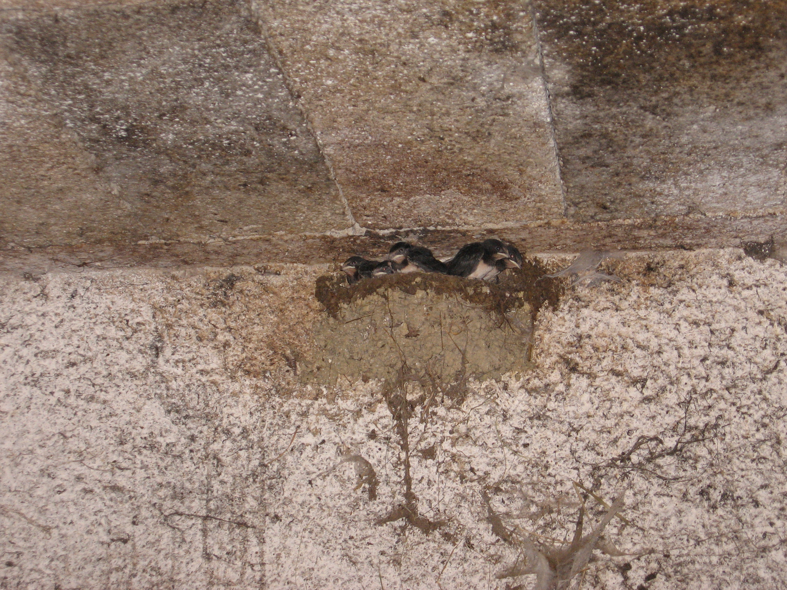 The nest of hirundo rustica rustica in the stable. Rogaška Slatina, Slovenia.